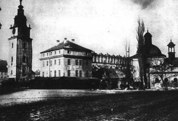 Market Square in Kraków (Cracow) in second half of 19th Century